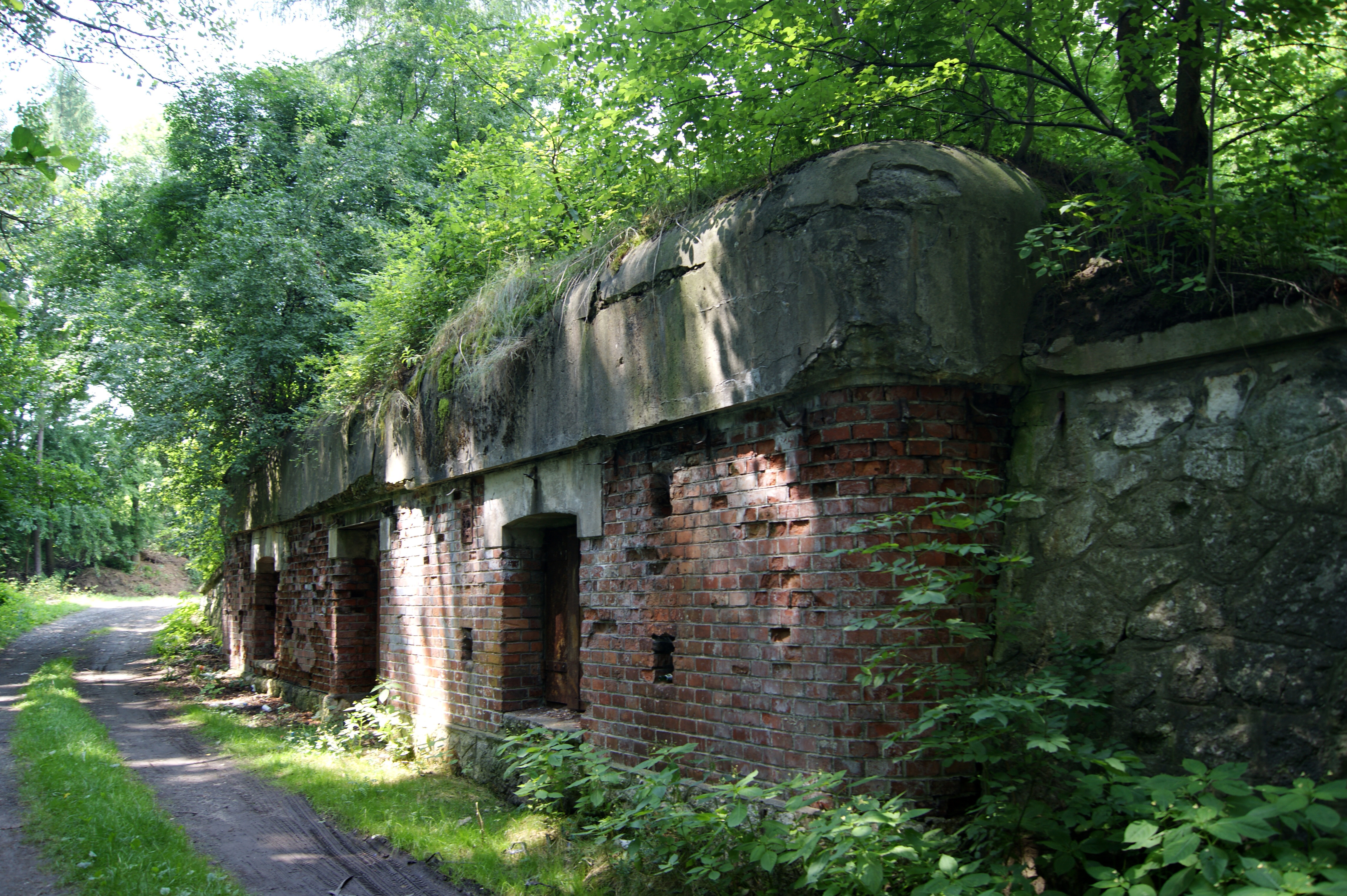 I WW, Austro-Hungarian fortifications-Krakow Fortress, ammunition shelter Bronowice, Tetmajera street, Krakow, Poland